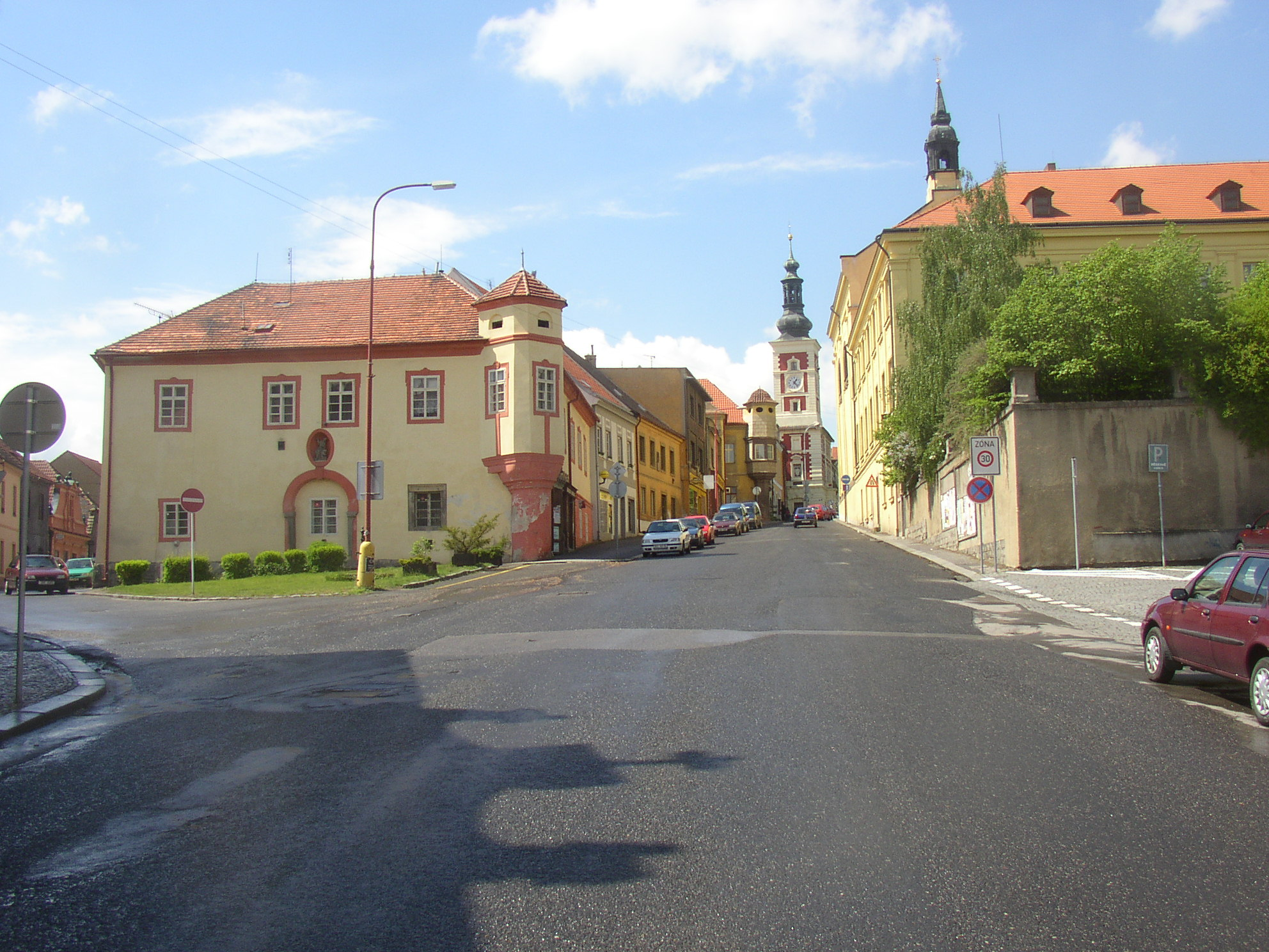 Looking along Vinařický Street from St Gotthard's towards Masaryk Square in Slaný, Czech Republic. Left: Modletický House from 1587, right: former Piarist College from rear, background in the middle: tower of old Town Hall.